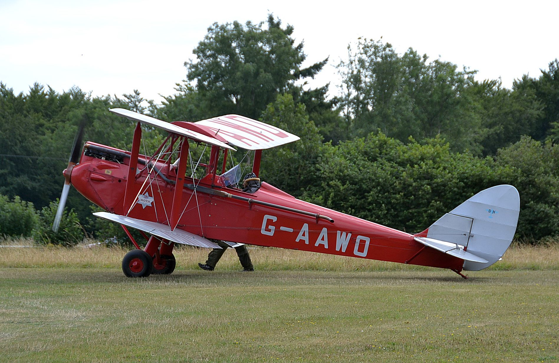 de Havilland DH-60 Gipsy Moth at Popham,Hants.,10/08/13.